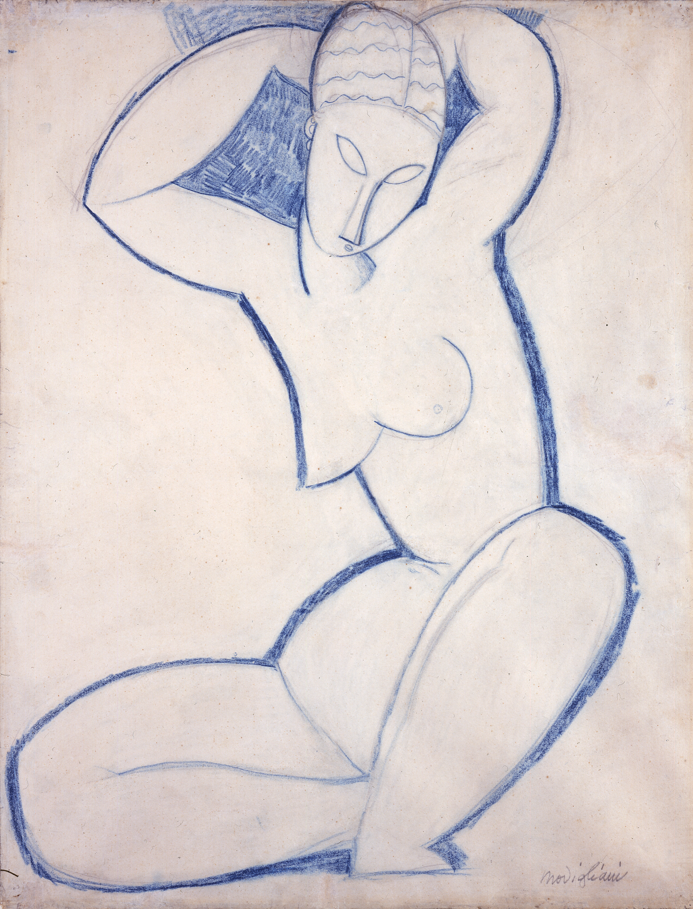 Part of the Garman Ryan Collection